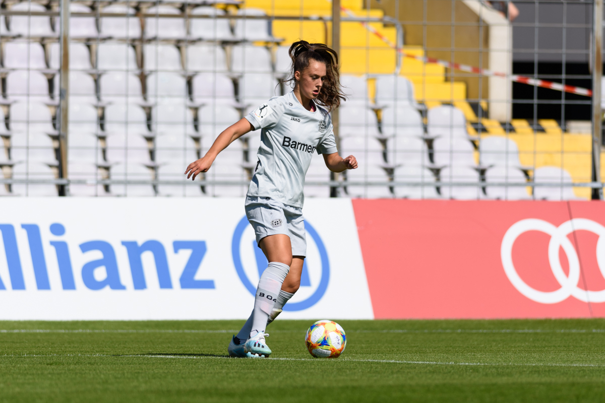 Gianna Rackow during the Bundesliga match vs FC Bayern